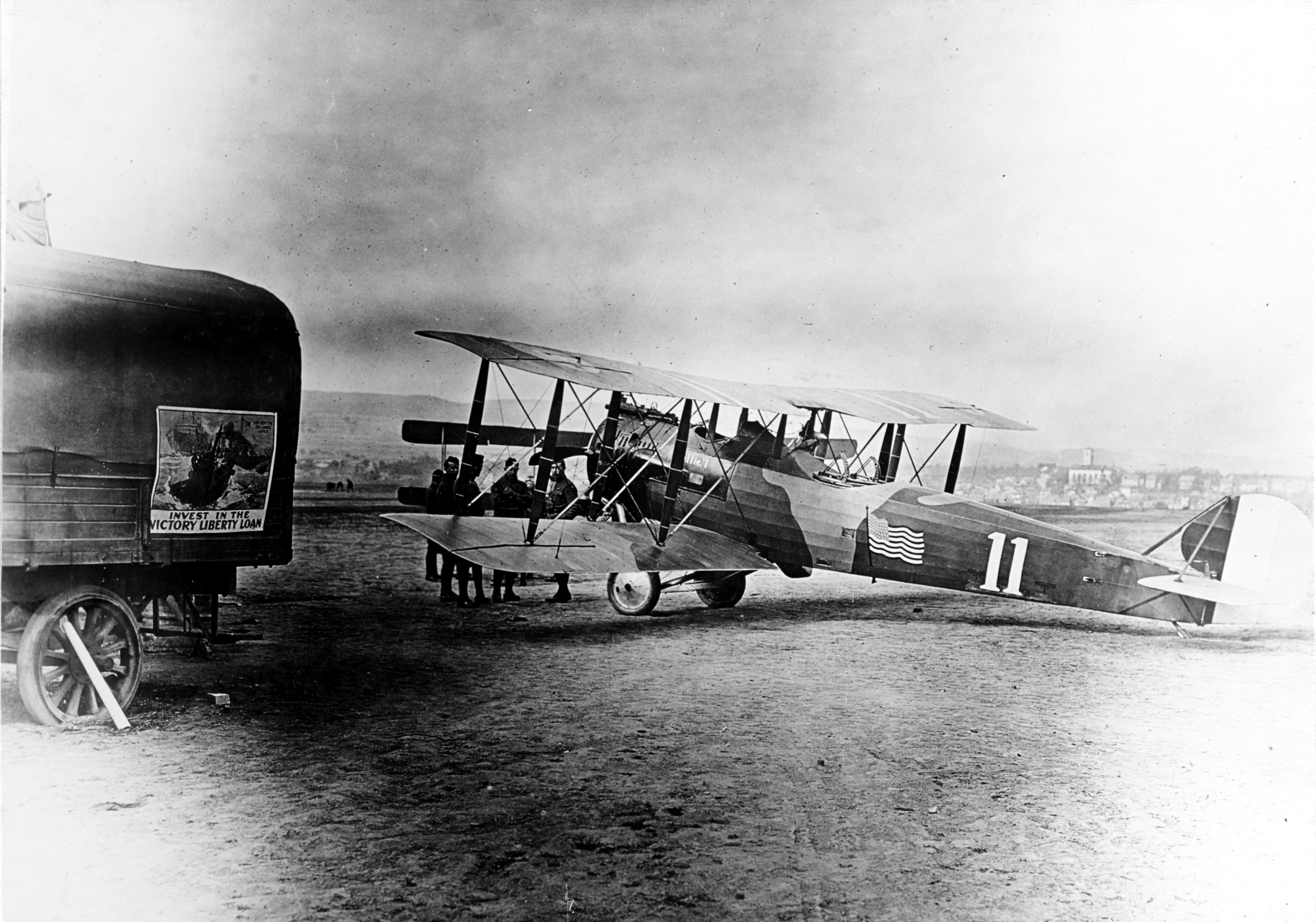 A U.S. Liberty Loan poster tacked to the side of a truck, at the flying headquarters of the U.S. Army's First Aero Squadron, near Andernach, Rhenish Prussia, Germany, 10 April 1919. The plane is a French-built Salmson 2 A.2 observation aircraft.